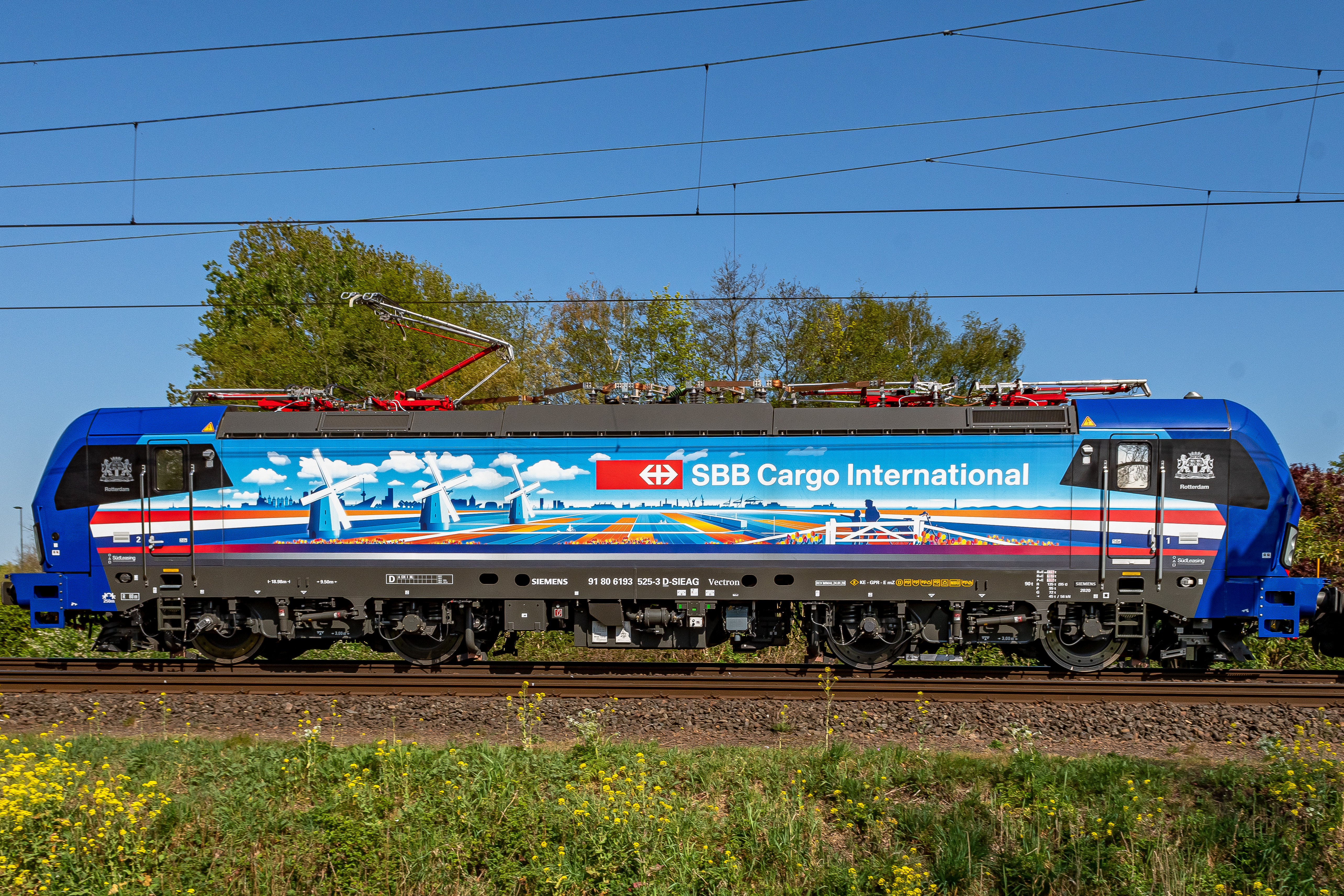 Detail view of the side of the SBB Cargo 193 525, with windmills, tulips and the name 'Rotterdam'.